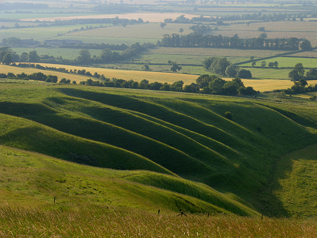 The Manger on a Summer's Evening. This square is of historical and geographical value and the land managed by the national trust. The square contains this interesting hill structure and is the western part of "The Manger", Dragon Hill being on the eastern side. Uffington Castle fort is contained mostly in this square with about a third of it in the next adjacent square. This view of the manager was taken from the vicinity of the white horse in the adjacent square, looking more or less north west.